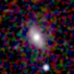 Galaxy NGC 427